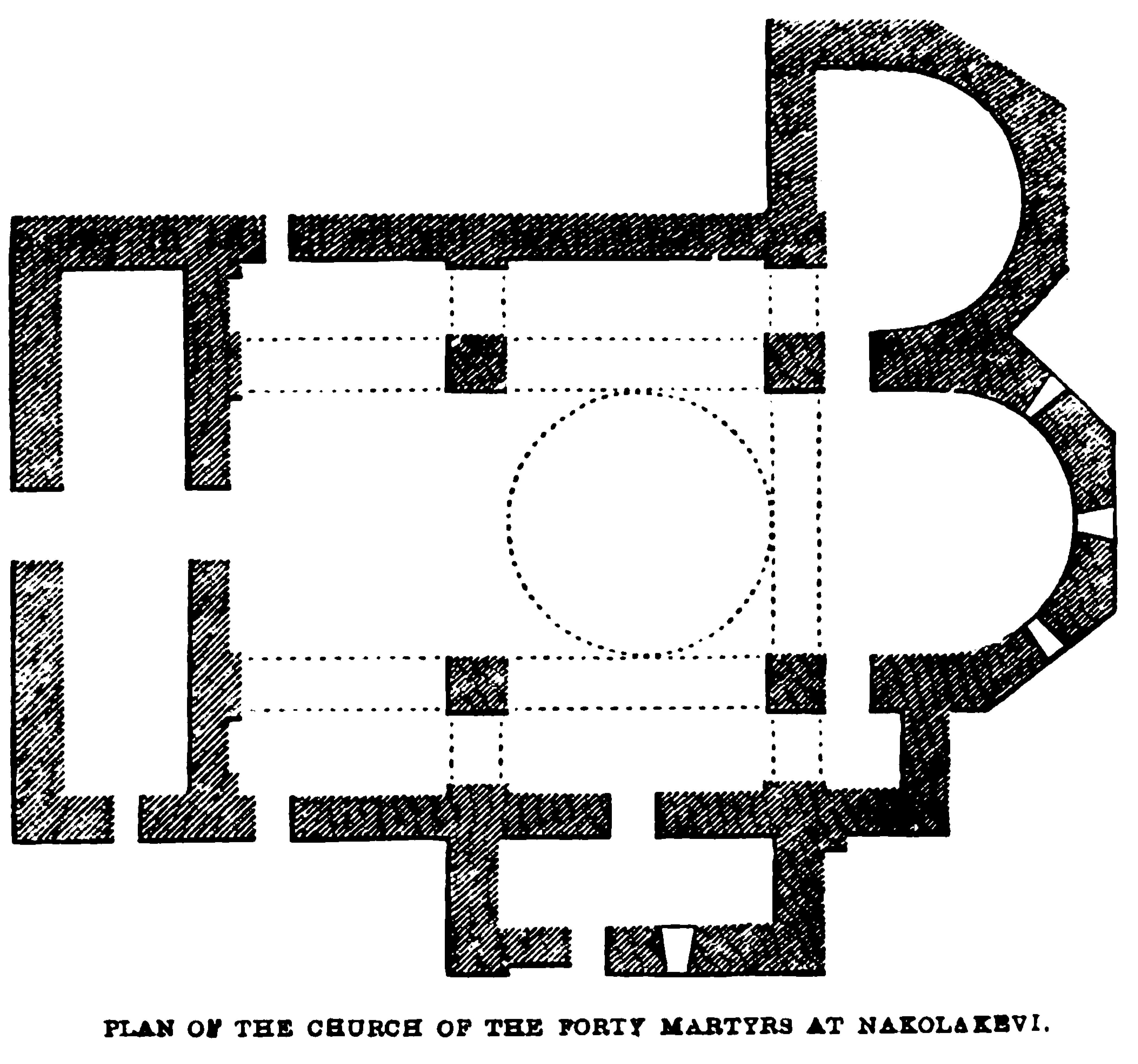 File:Plan of the church of the Forty Mattyrs at Nakolaksvi. The church of the Forty Martyrs, at Nakolakevi the ancient Archaeopolis and the Christian capital of the Lazi and close to the city of the Argonauts was rebuilt by Justinian from the ruins of an earlier church. It is undoubtedly that to which Procopius refers It stands alone towards the top of hill and in the midst of ruins now overgrown with trees underwood It is remarkable for the projection of the pro thesis to the north and for its immense size j for the double instead of the triple apse for the smallness of the diaconicon and for the chapel of the Forty Martyrs attached to the south side of the choir Justinian gave some relics of the Martyrs of Sebaste to this church and to commemorate them forty stones are placed in the pavement of the chapel The narthex has an entrance from the south as well as the west Here we have the influence of the new fashion the apses being polygonal.